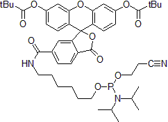 6-FAM phosphoramidite for the terminal labeling of synthetic oligonucleotides with fluorescein